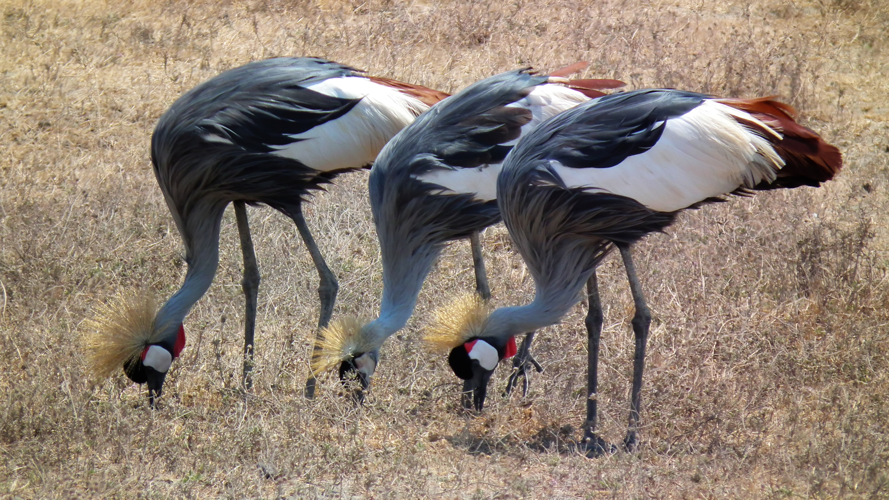 Grey Crowned Crane Balearica regulorum, picture taken, Northern Tanzania